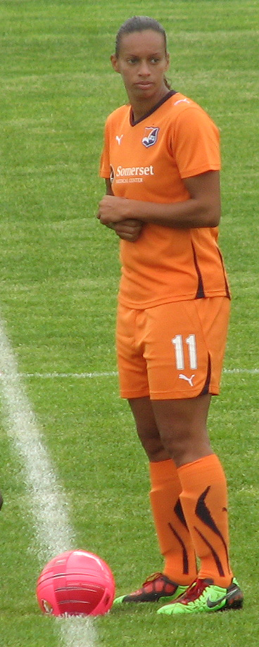 Rosana of the New Jersey Sky Blue FC.